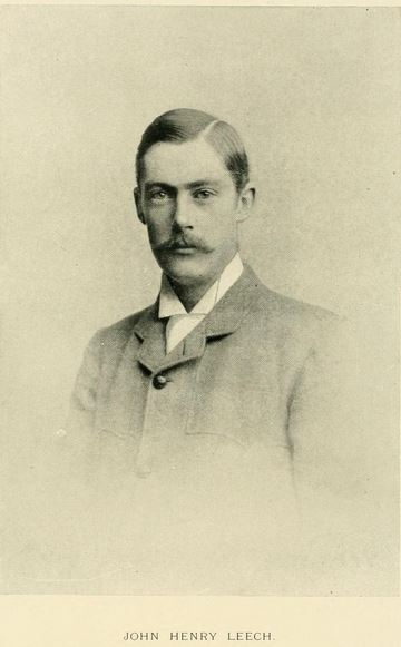 John Henry Leech, English entomologist